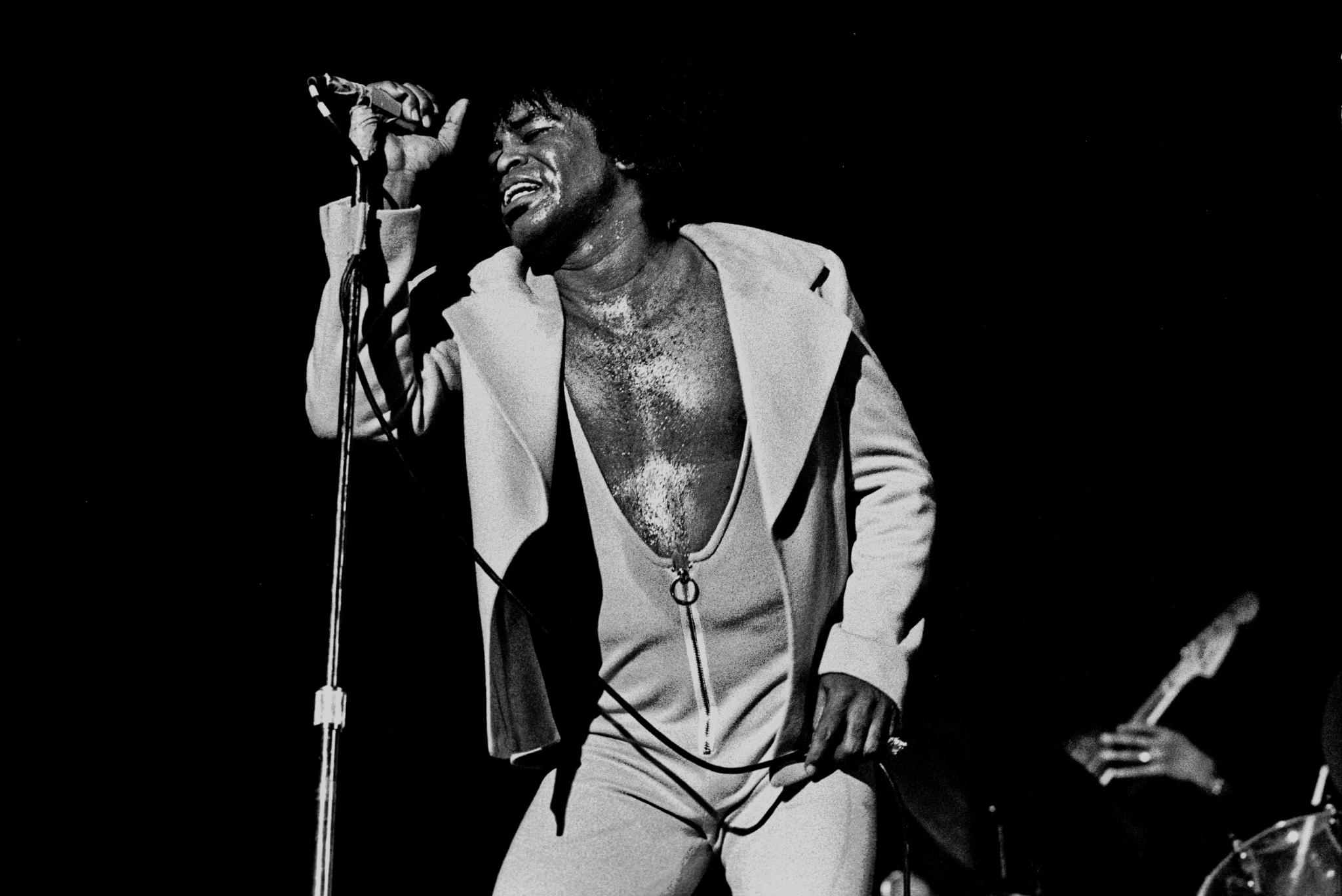 James Brown — performing in the Musikhalle of Hamburg, in February 1973.